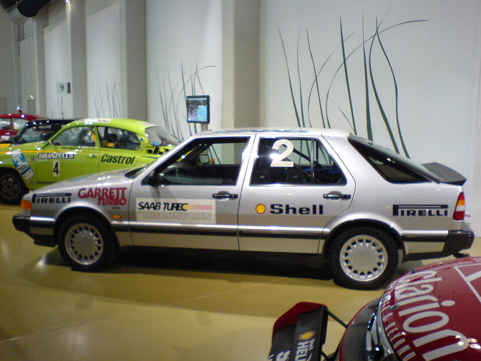 Number two of the three SAAB 9000 cars that set the world record in Talladega. The car is standing in the SAAB museum in Trollhättan, Sweden.